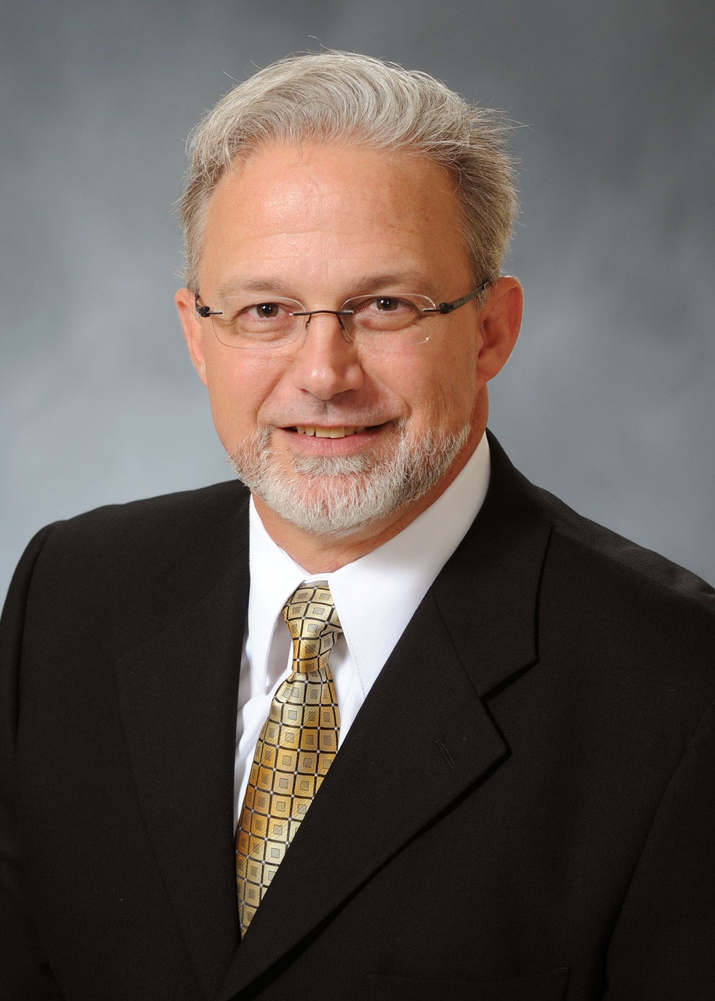 Carter Warden headshot